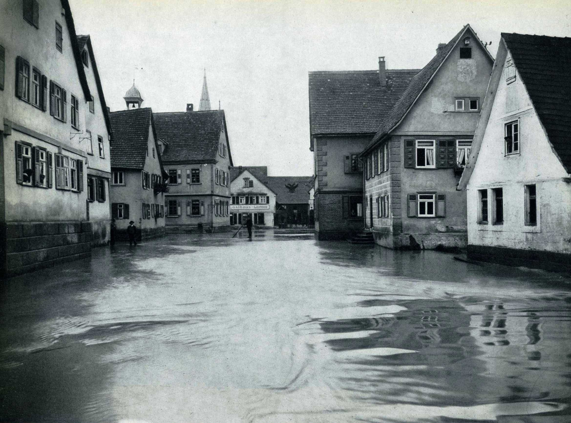 Böckingen Hochwasser 1893